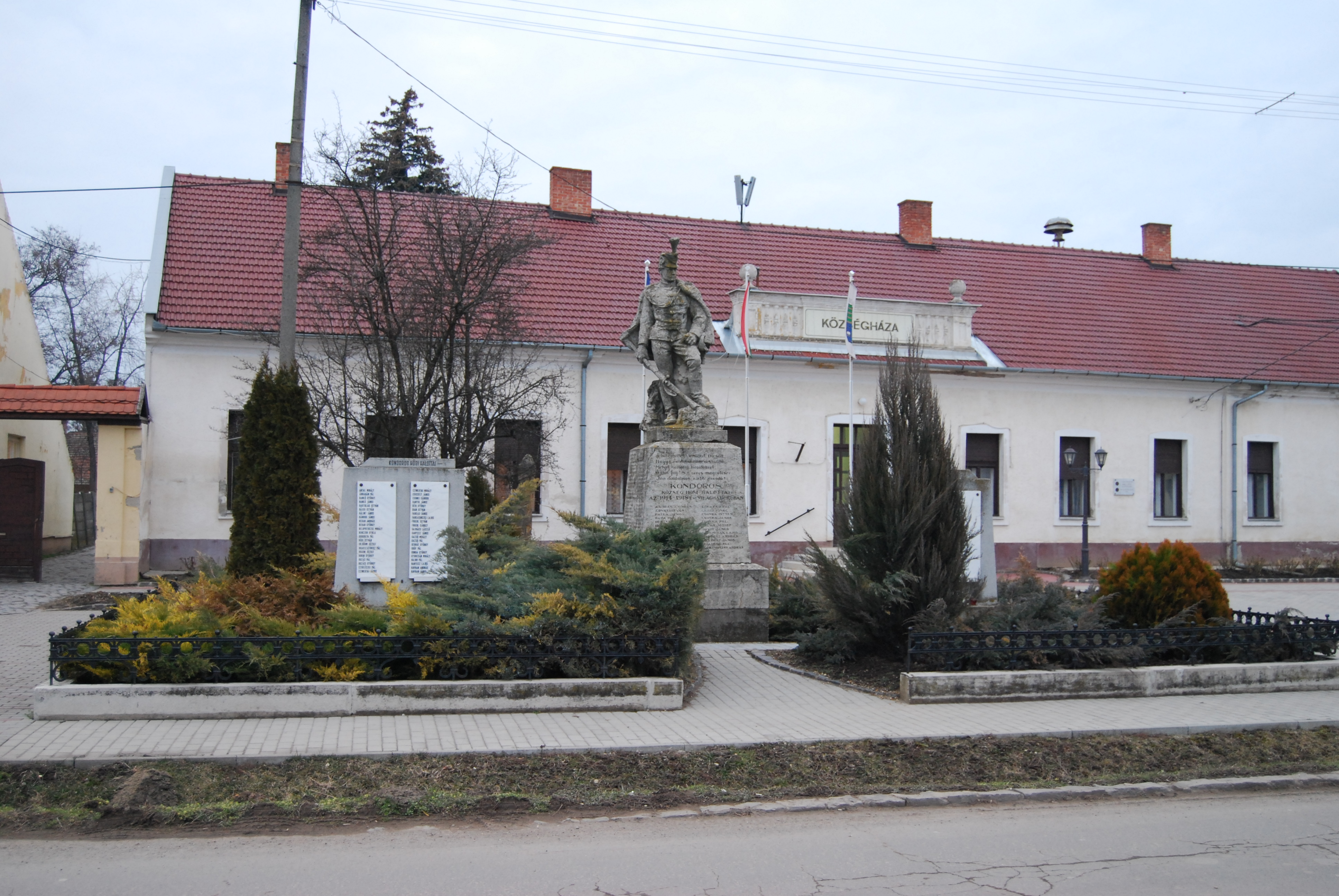 Kondoros village in Békés County, Hungary